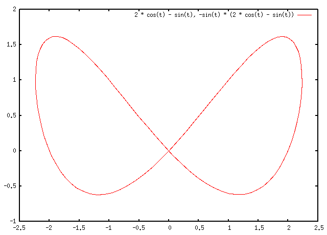 parametric curve x = 2 * cos(t) - sin(t) y = -sin(t) * (2 * cos(t) - sin(t)) for t in [0, 2 * pi]